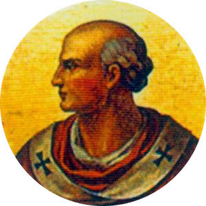 Portait of Pope Sylvester III in the Basilica of Saint Paul Outside the Walls, Rome